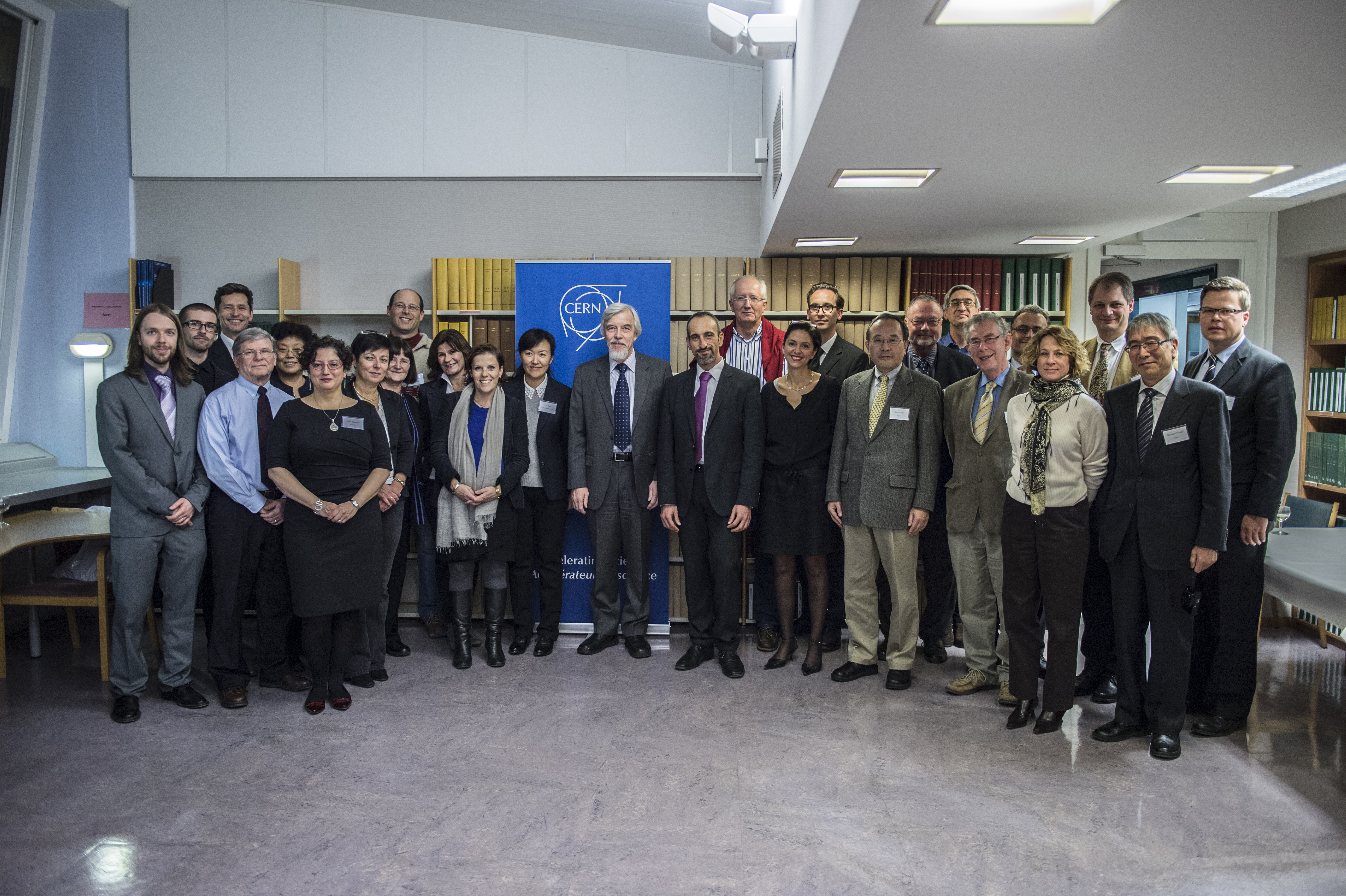 SCOAP3 is a one-of-its-kind partnership of over three thousand libraries, key funding agencies and research centers in 44 countries and 3 intergovernmental organisations.